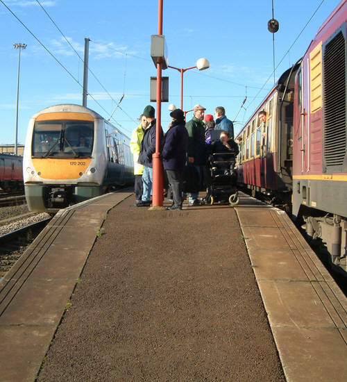 Train Spotters at Norwich station. Cropped selection from an original photograph by Amos Wolfe taken 10th November 2001. This photograph was taken at Norwich station during a visit by LNER Thompson Class B1 61264. The on the left is an Anglia(?) Class 170 "Turbostar", whilst the locomotive on the left is a EWS Class 67 with a British Railways Mark 1 coach.